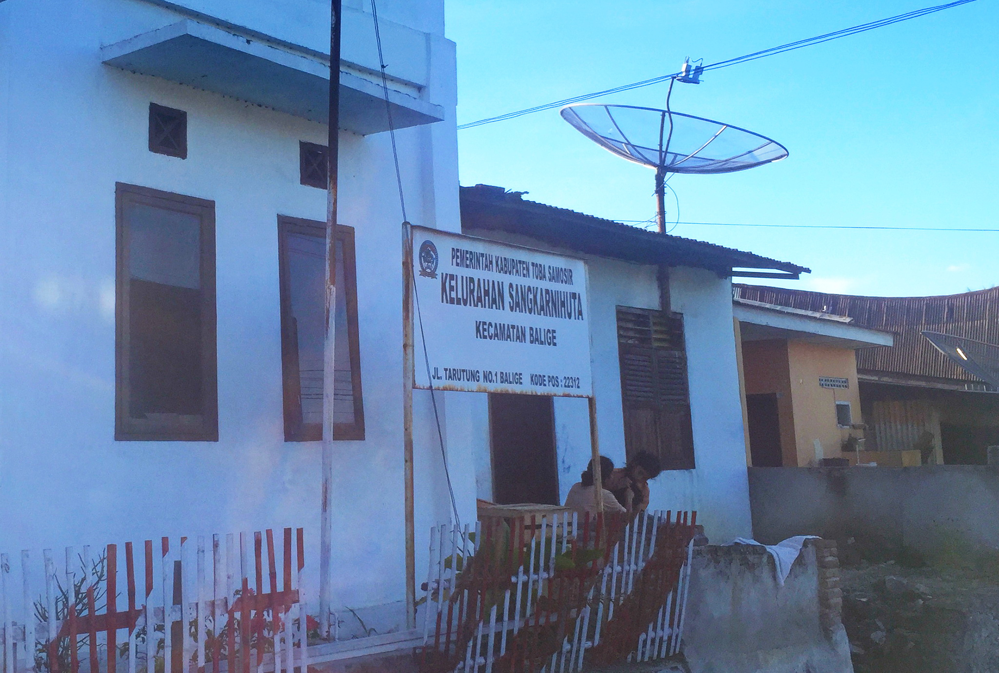 Office of Sangkar Nihuta, Balige, Toba Samosir